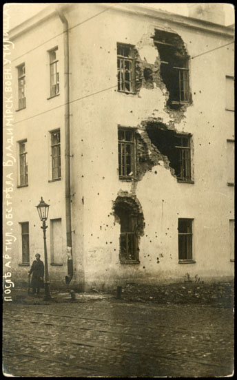 Saint Petersburg (Russia), 18, Bolshaya Grebetskaya (now Pionerskaya) Street. View of the Vladimir military (junker) school building after the suppression of the junkers' uprisal against bolsheviks on November 11, 1917 (the building was demolished in 2007).